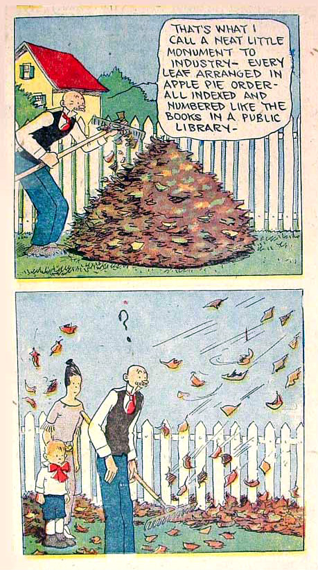 Portion of the September 30, 1923 Sunday page of The Gumps by Sidney Smith A search for renewals was done in periodicals and artwork for "Chicago Tribune", "San Francisco Chronicle" and "Sidney Smith" for the years 1950 and 1951. There were no listings for any of these names; there's no evidence of continued copyright.